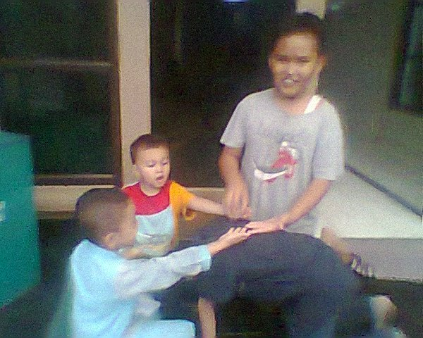 caca burane